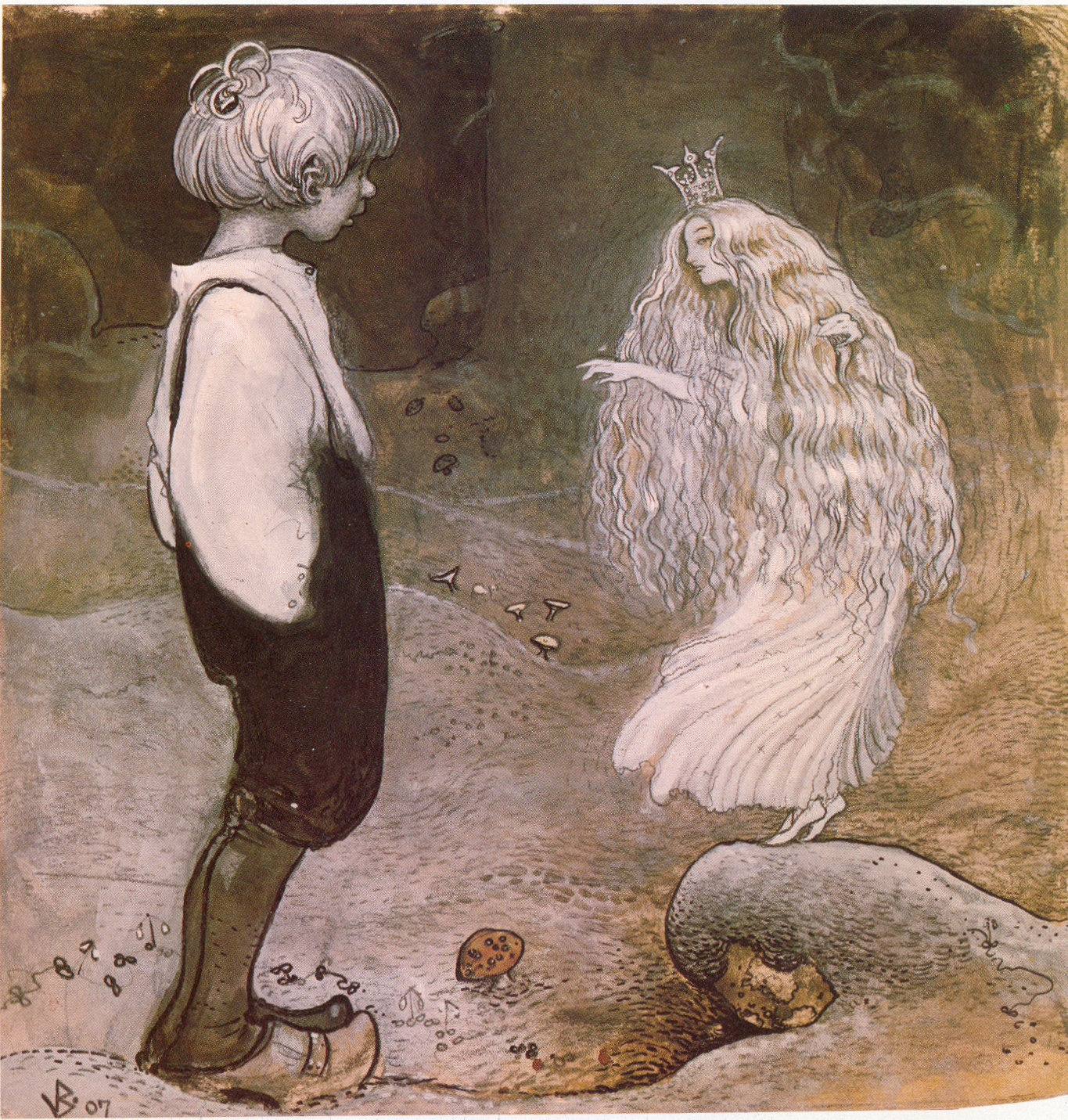 Illustration of Alfred Smedberg's The seven wishes in Julbocken, 1907